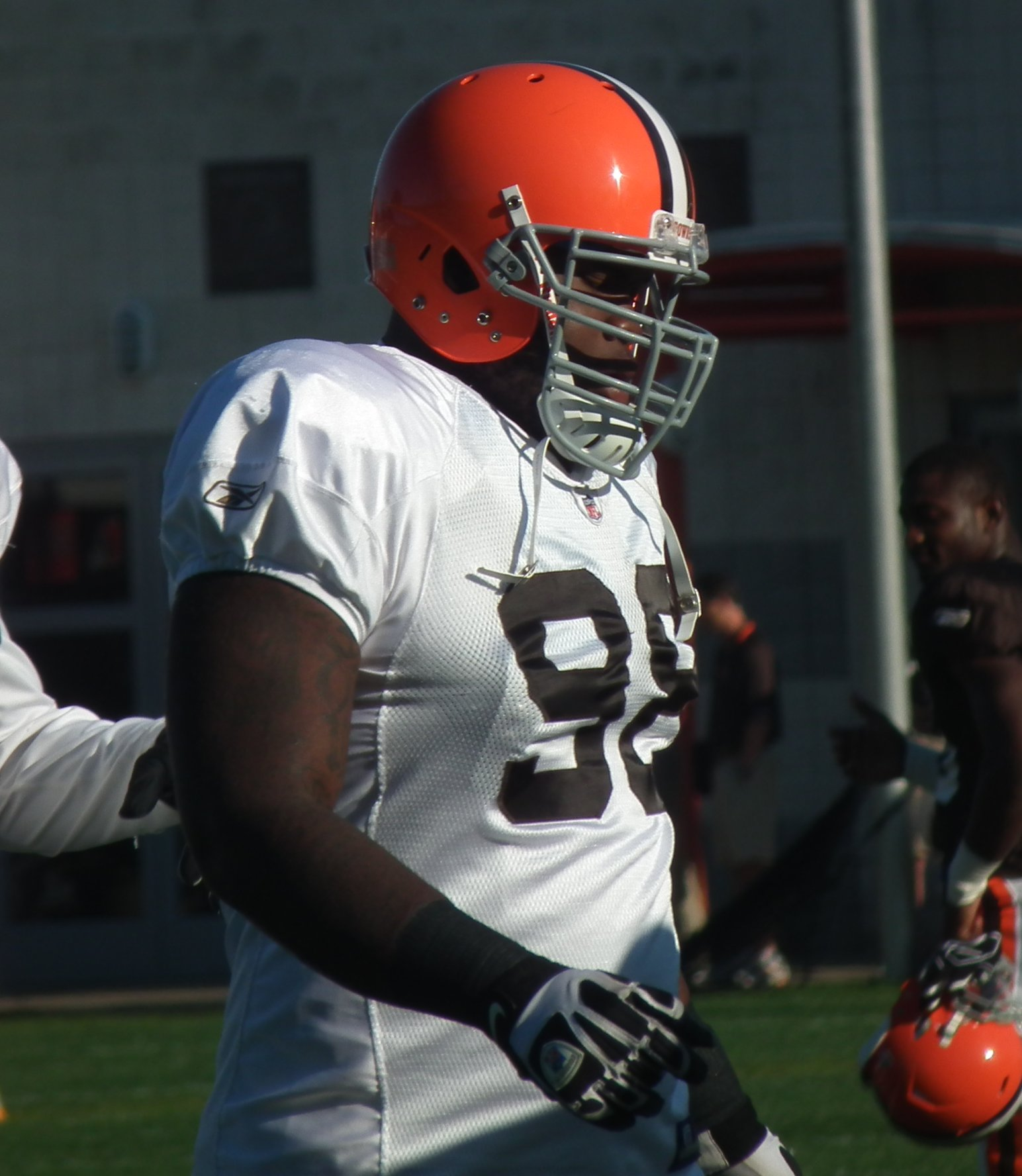 Cleveland Browns defensive tackle Phil Taylor